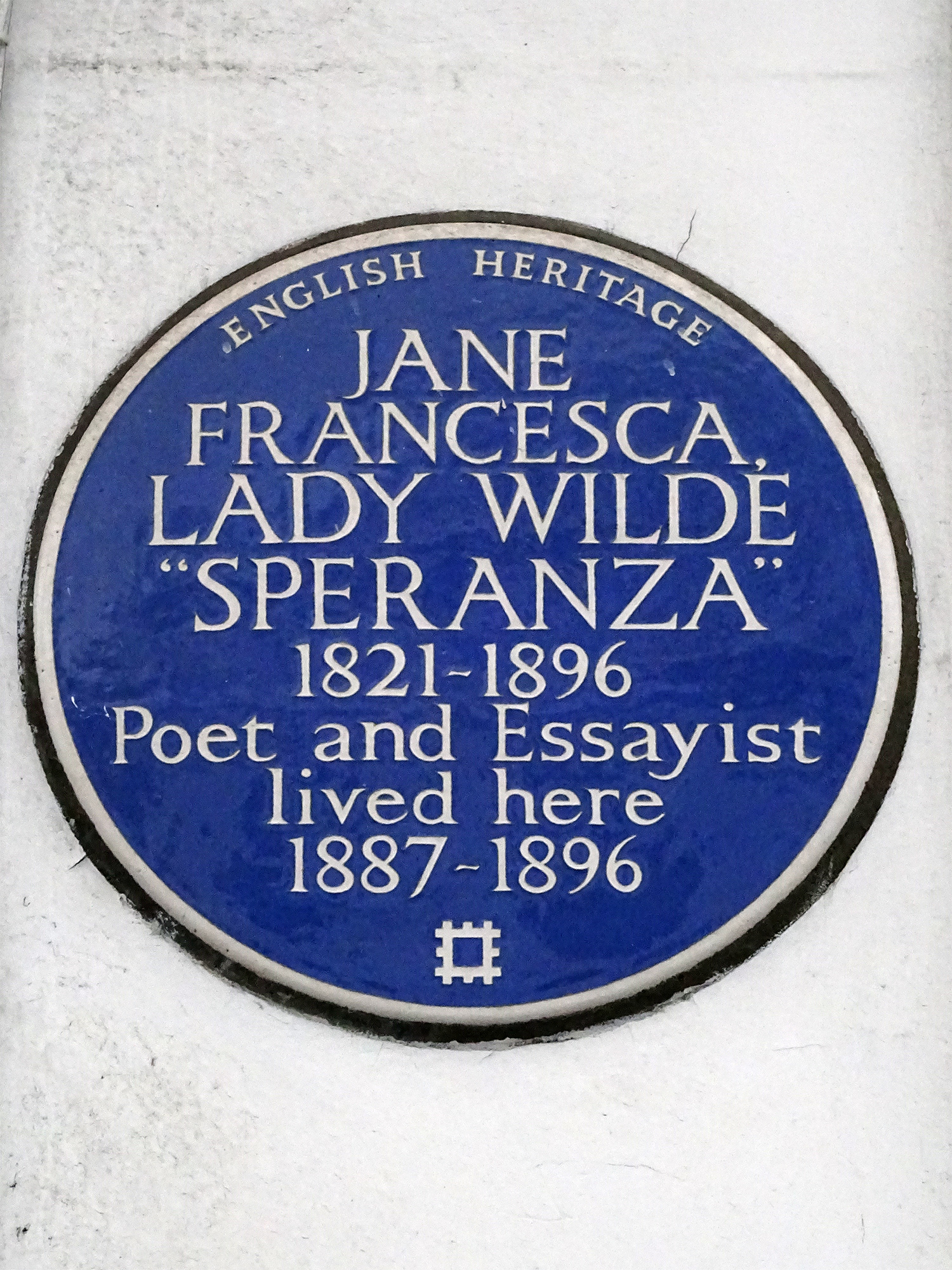 Blue plaque erected in 2000 by English Heritage at 87 Oakley Street, Chelsea, London SW3 5NP, Royal Borough of Kensington and Chelsea